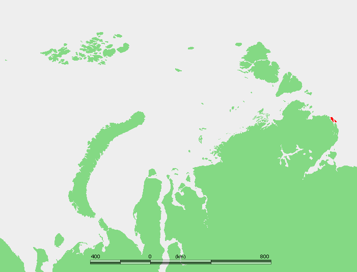 Nordensjelda Islands